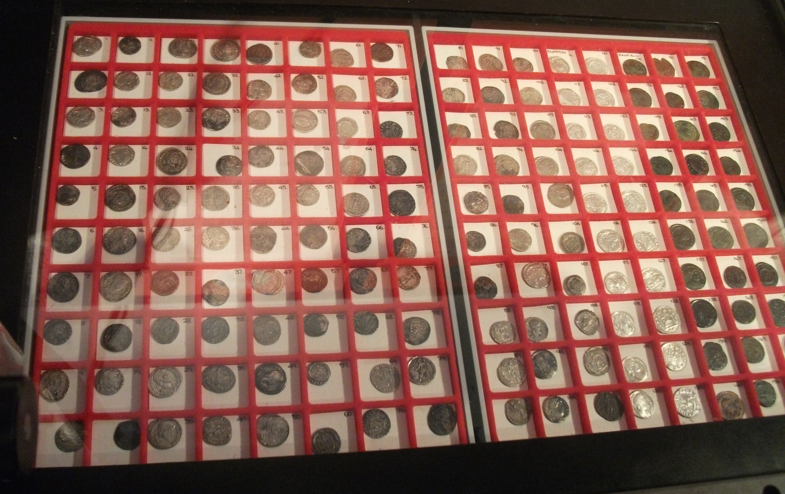 A collection of various old coins, viewable at Bedford Museum.